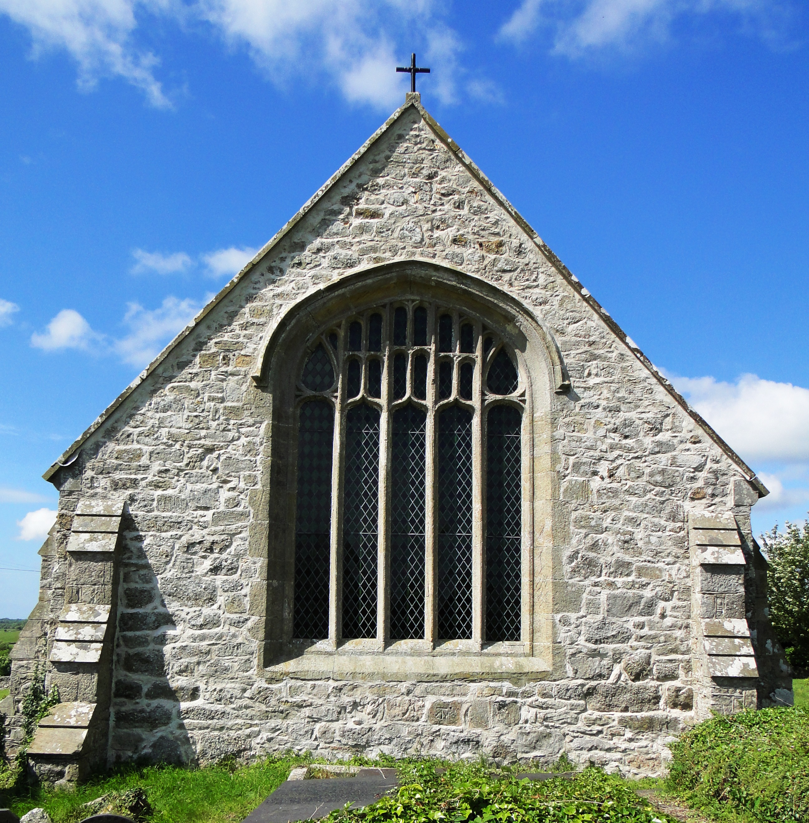 The east window of St Cristiolus's Church, Llangristiolus